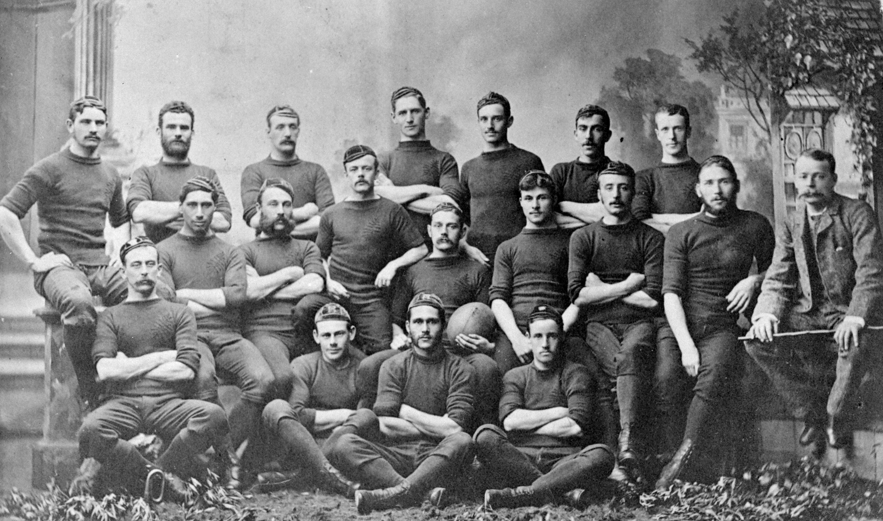 The 1884 New Zealand rugby union team that toured New South Wales.Back row from left to right: Timothy O'Connor, Hart Udy, George Robertson, James Allan, Edward Millton, Thomas Ryan, Robert WilsonMiddle row:Edwin Davy, John Taiaroa, George Carter, John Dumbell, William Millton, Henry Braddon, George Helmore, Peter Webb, Samuel Sleigh (manager)Seated in front: John Lecky, Joe Warbrick, Henry Roberts